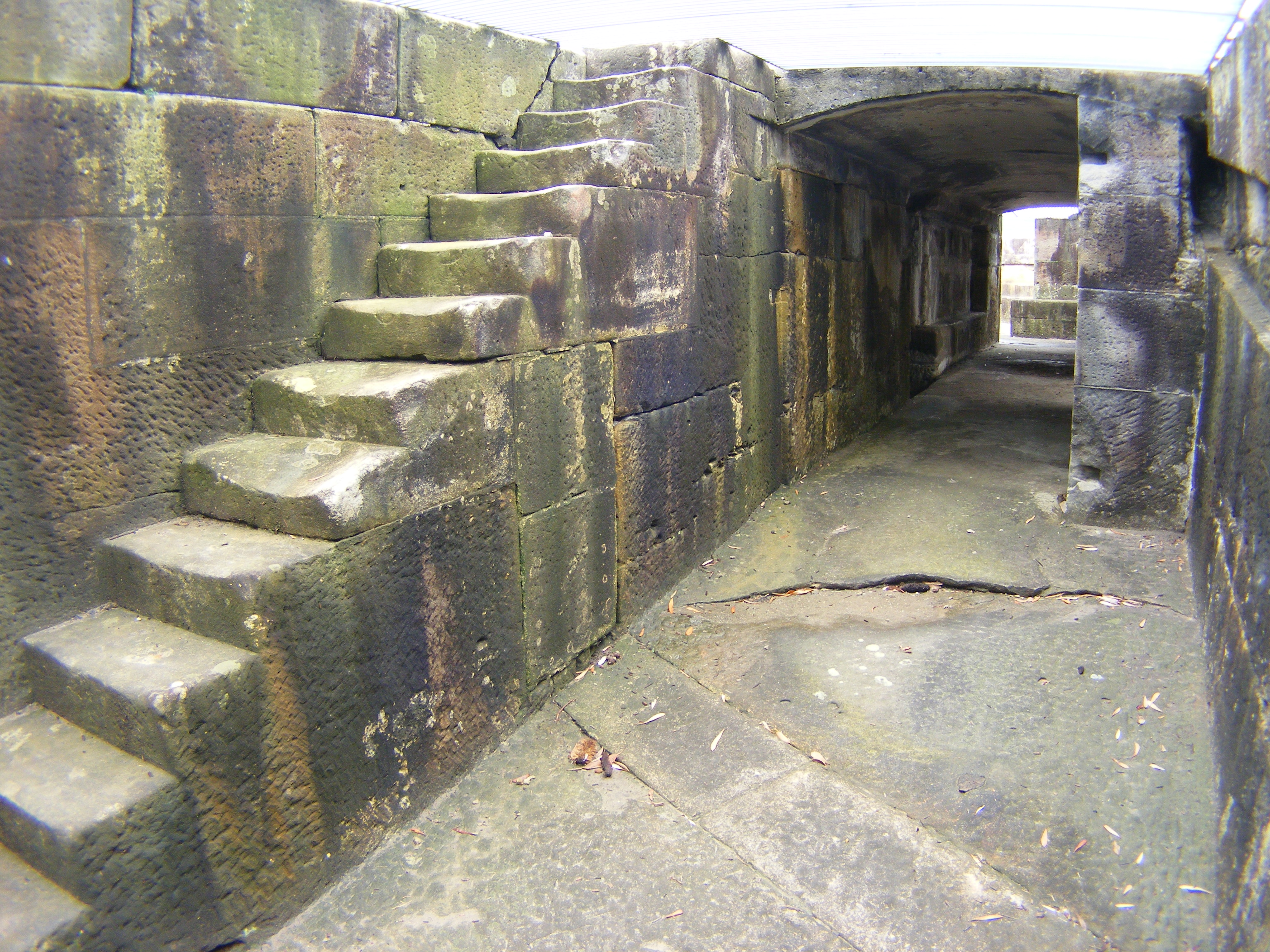 Sydney Harbour Defences. Inside a fort in Sydney Harbour